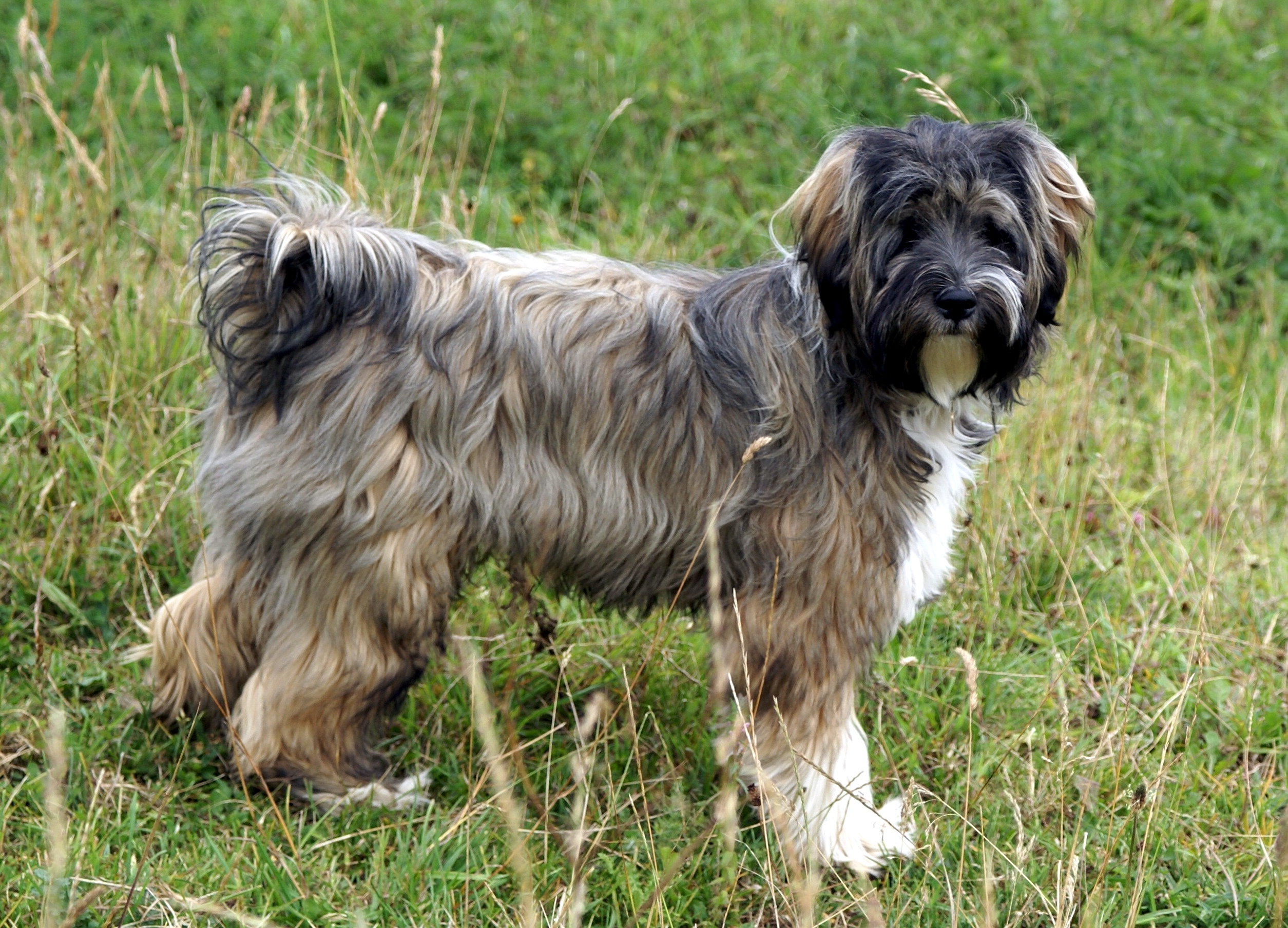 Tibetan Terrier, aged about 7 months